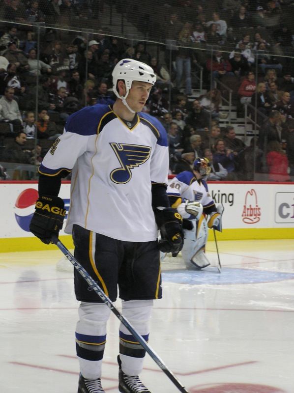 Eric Brewer with the St. Louis Blues on December 9, 2007 versus the Colorado Avalanche